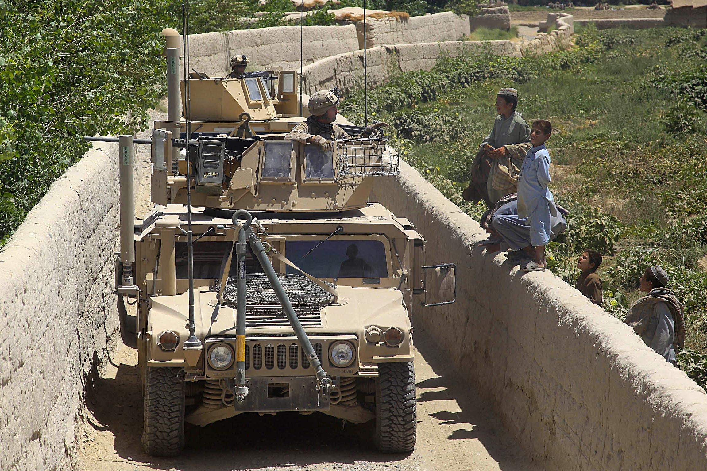 U.S. Marines stop to talk with Afghan children while conducting a mounted patrol through the Nawa district in Helmand province, Afghanistan, Aug. 7, 2009. The Marines are assigned to Bravo Company, 1st Battalion, 5th Marine Regiment. U.S. Marine Corps photo by Cpl. Artur Shvartsberg